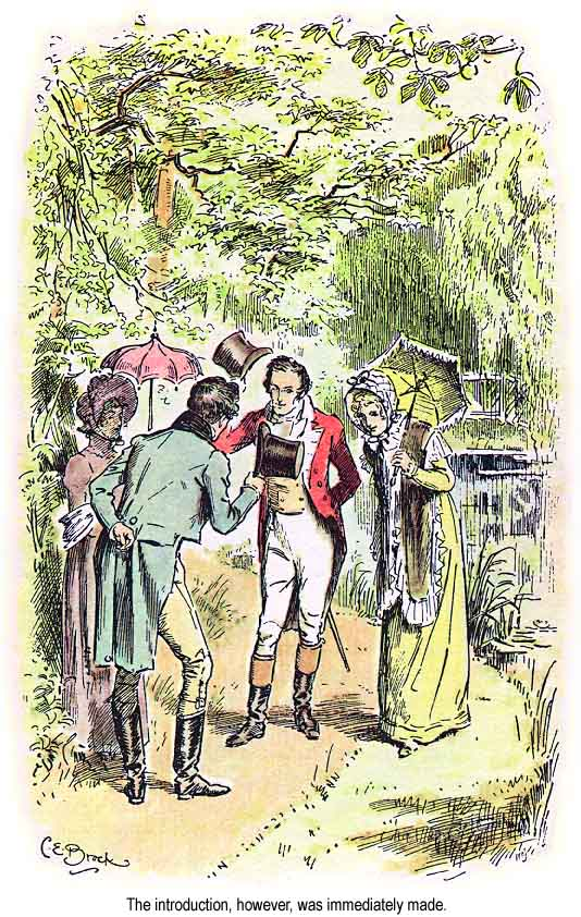 C. E. Brock illustration for the 1895 edition of Jane Austen's novel Pride and Prejudice (Chapter 43)